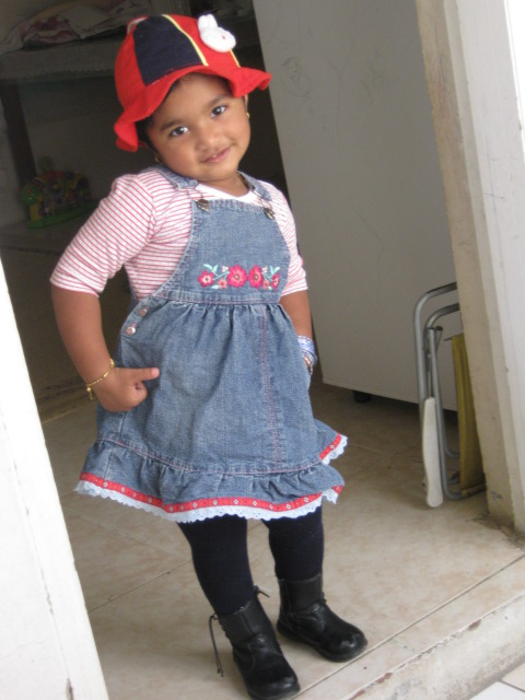 it is me, ilfa